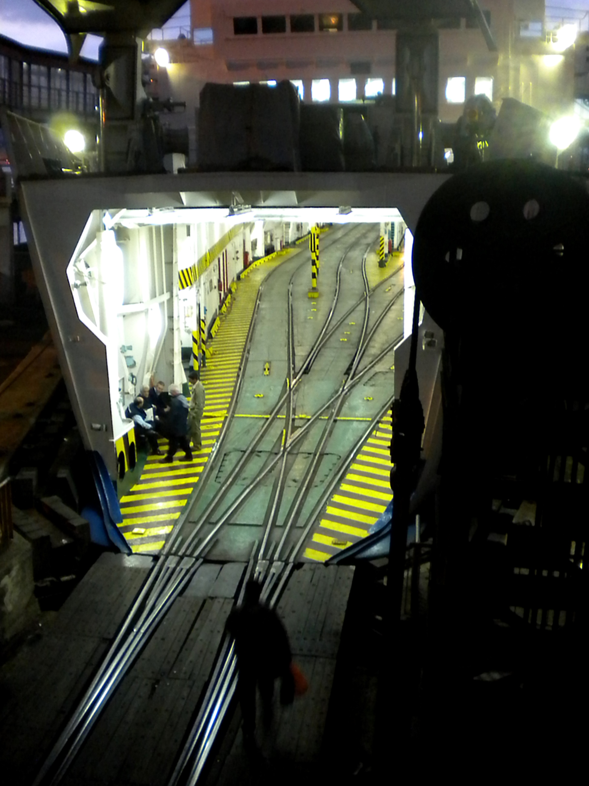 Car and train ferry in Messina Villa or Scilla, Italy